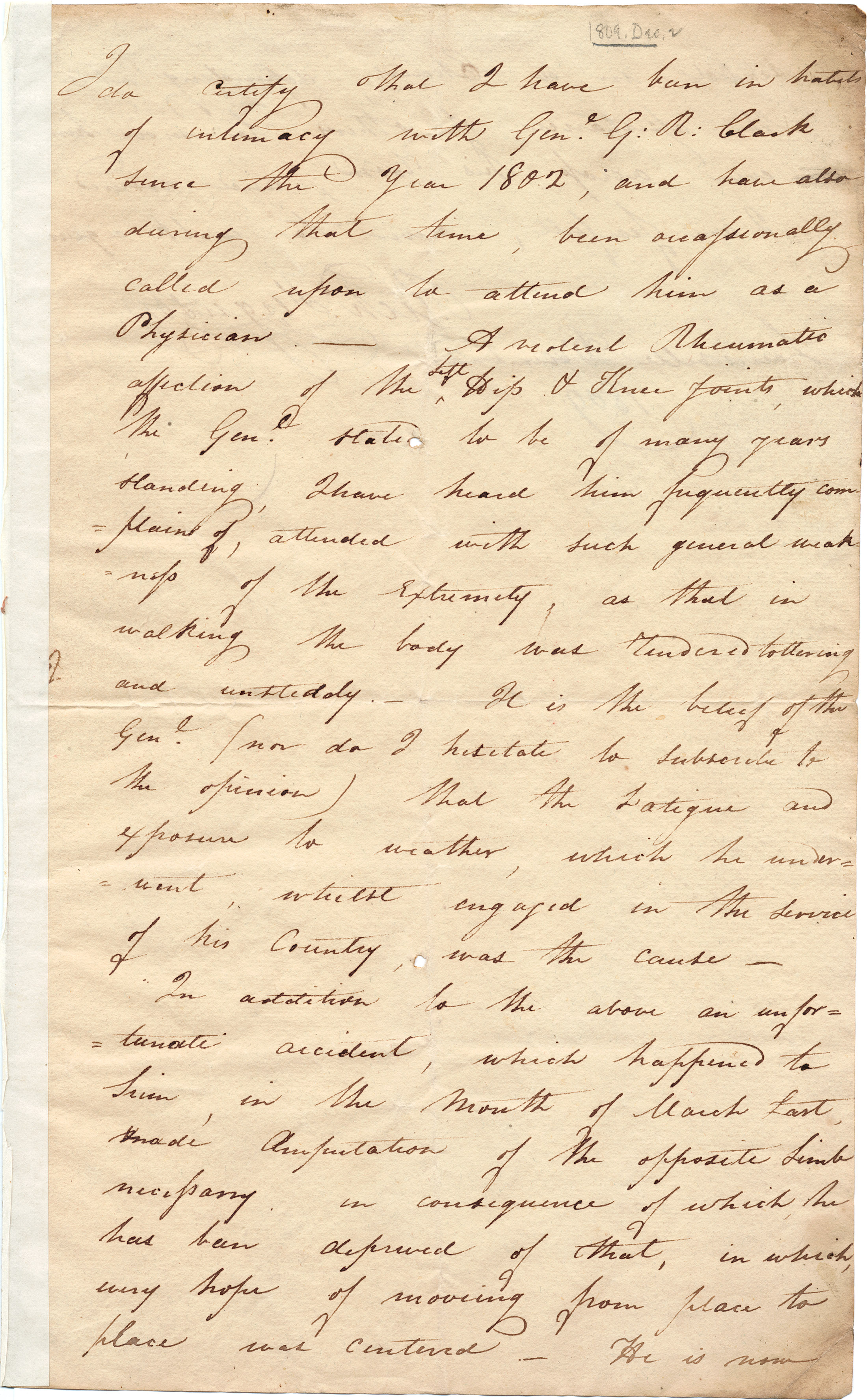 Dr. Richard Ferguson had served as physician to George Rogers Clark for seven years when Ferguson wrote his statement in 1809 concerning Clark's health. Dr. Ferguson outlined the details of Clark's health and infirmities. General George Rogers Clark suffered from rheumatism of the hip and knee, according to Ferguson, as well as weakness of the extremities. Dr. Ferguson believed that both conditionst were caused by the extreme circumstances Clark endured during his years of military service. Ferguson also notes the amputation of Clark's right leg due to an accident.